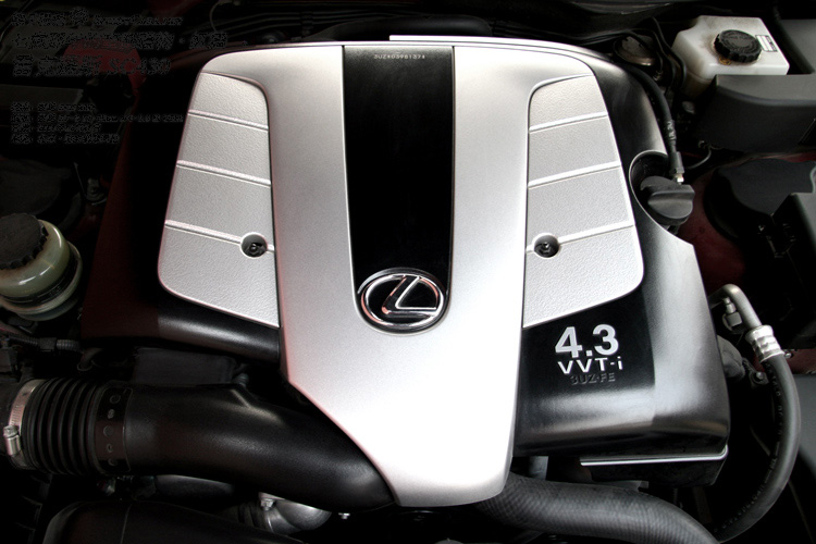 Lexus SC430 * Red Wall * Engine